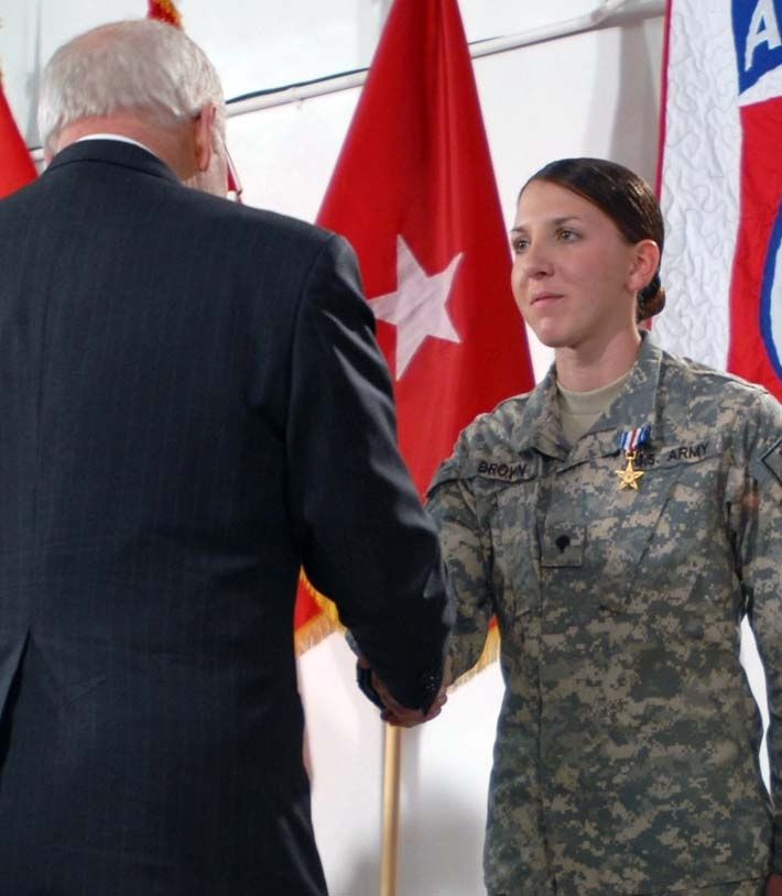 Spc. Monica Brown gets awarded the Silver Star at Bagram Airfield, Afghanistan, by Vice President Dick Cheney for her actions on April 25, 2007, during a combat patrol.